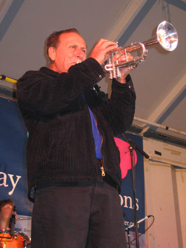 Laco Déczi performing on Czech streetfest in New York